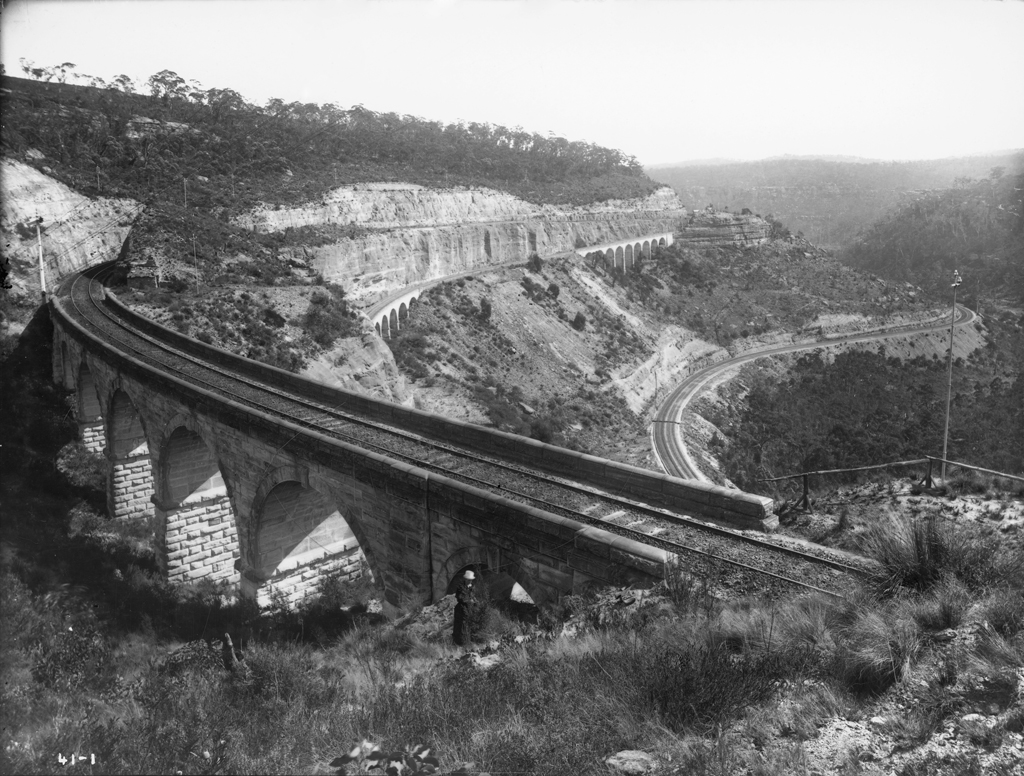 a collection of historical pictures in the Public Domain from the Powerhouse Museum. This files was posted to Flickr by The Powerhouse Museum (See their website for further information). Many thanks to the Powerhouse Museum for helping release this wonderful material. This tag does not indicate the copyright status of the attached work. A normal copyright tag is still required. See Commons:Licensing for more information.